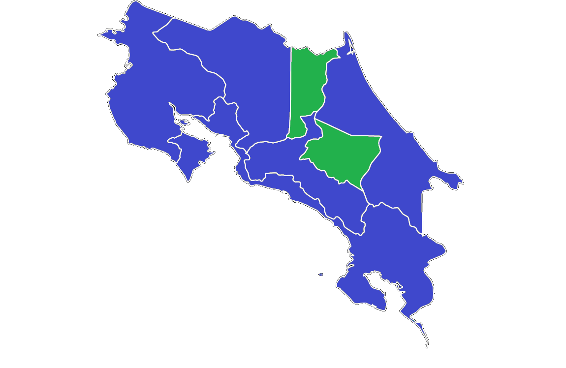 Resultados electorales provinciales 1978, fuente